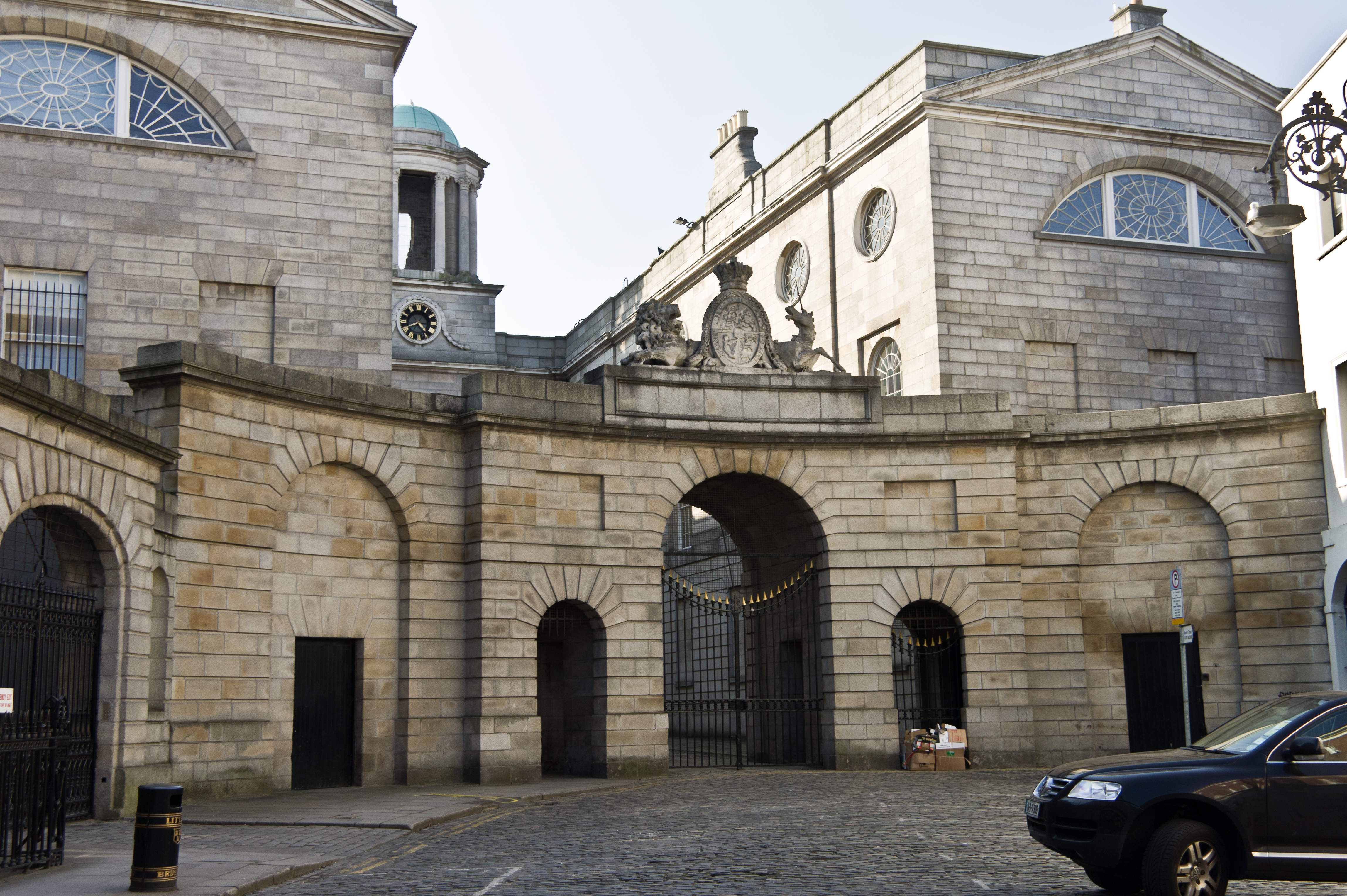 View of King's Inns and its entrance at the end of Henrietta Street Henrietta Street is a Dublin street, to the north of Bolton Street on the north side of the city, first laid out and developed by Luke Gardiner during the 1720s. A very wide street relative to streets in other 18th-century cities, it includes a number of very large red-brick city palaces of Georgian design. The street is generally held to be named after Henrietta, the wife of Charles FitzRoy, 2nd Duke of Grafton., although an alternative candidate is Henrietta, the wife of Charles Paulet, 2nd Duke of Bolton. The nearby Bolton Street is named after Paulet. Henrietta Street is the earliest Georgian Street in Dublin – it is the model from which Dublin’s Georgian identity is derived[citation needed]. Construction on the street started in the mid 1720s, on land bought by the Gardiner family in 1721. Construction was still taking place in the 1750s. Gardiner had a mansion, designed by Richard Cassels, built for his own use around 1730. The street was popularly referred to as Primate's Hill, as one of the houses was owned by the Archbishop of Armagh, although this house, along with two others, was demolished to make way for the Law Library of King's Inns. The street fell into disrepair during the 19th and 20th centuries, with the houses being used as tenements, but has been the subject of restoration efforts in recent years. There are currently 13 houses on the street. The street is a cul-de-sac, with the Law Library of King's Inns facing onto its western end.